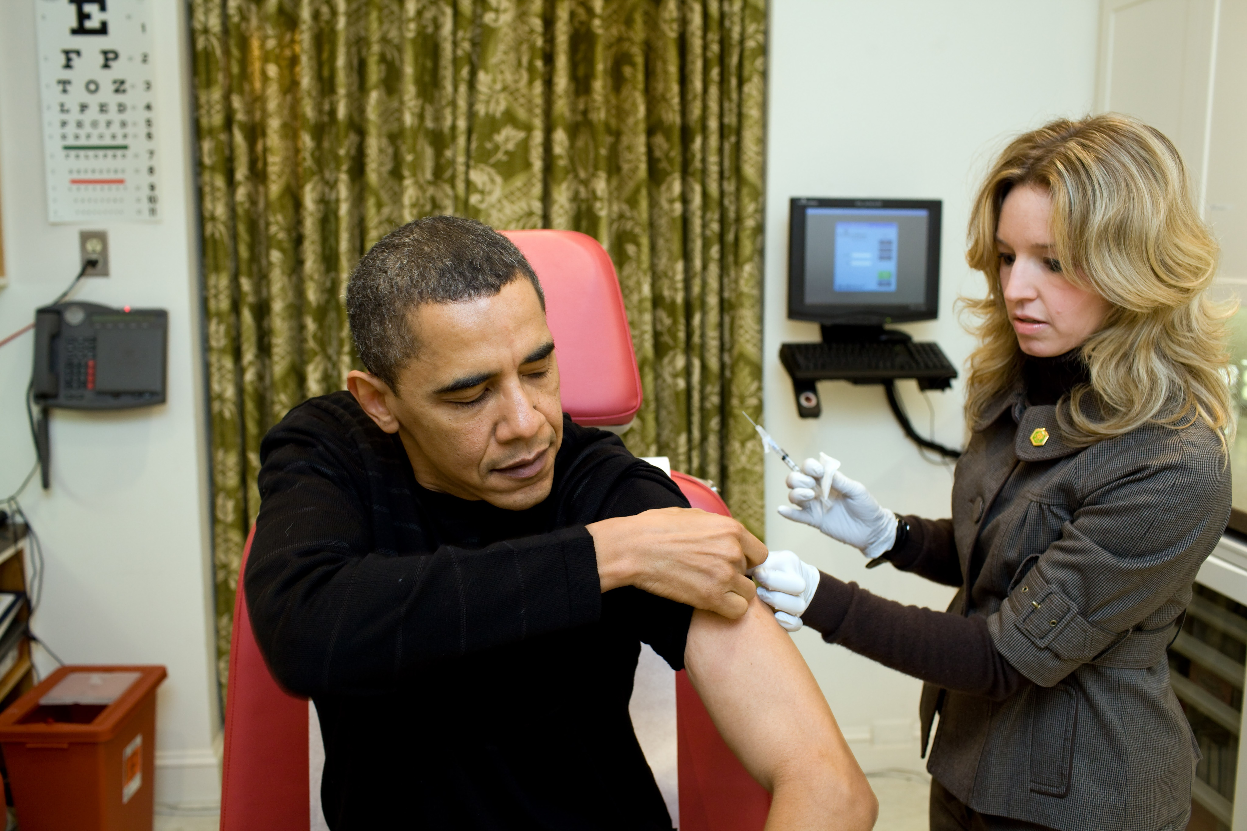 A White House nurse prepares to administer the H1N1 vaccine to President Barack Obama at the White House on Sunday, Dec. 20, 2009.